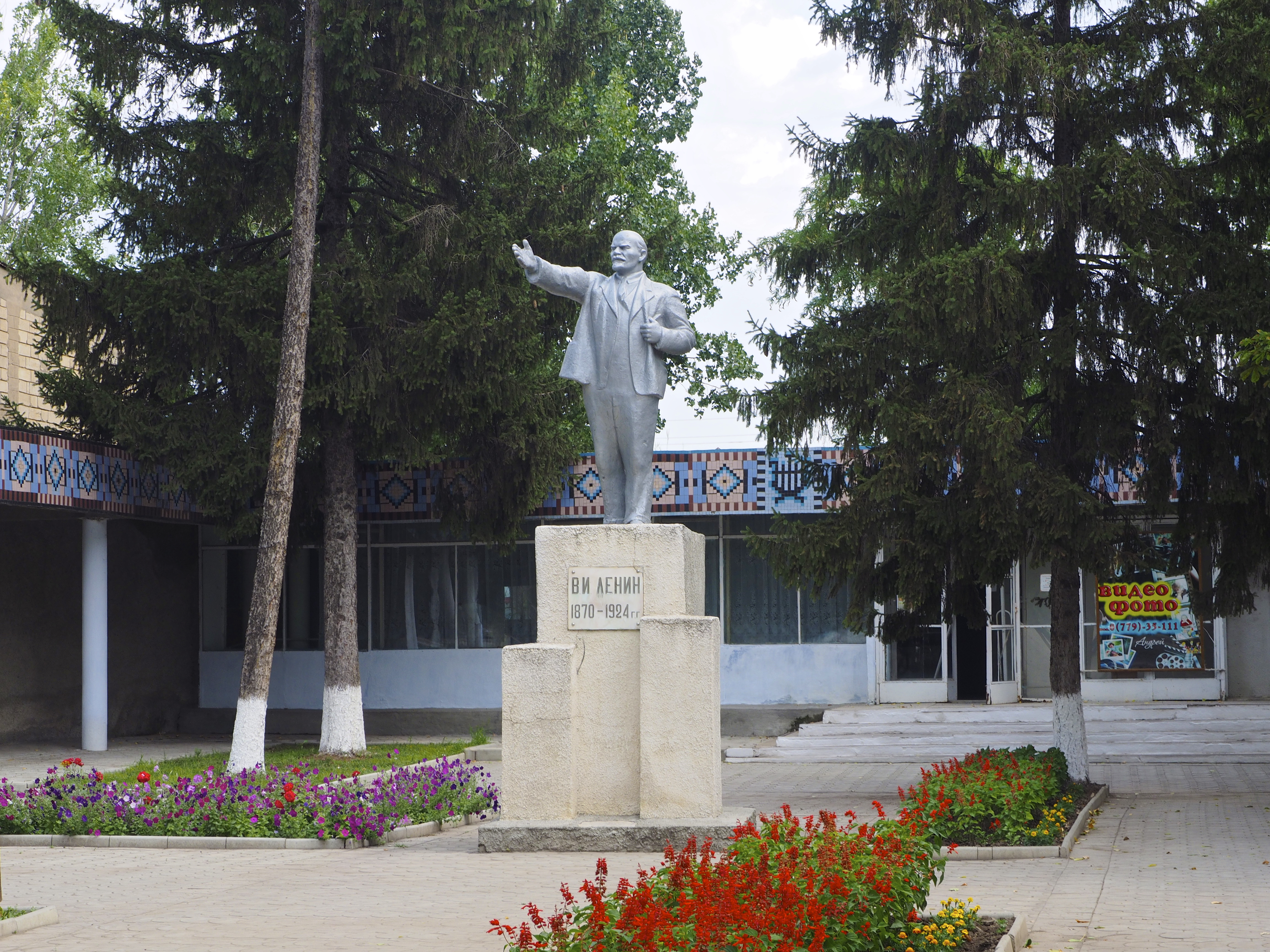 statue of Lenin in Grigoriopol, Transnistria